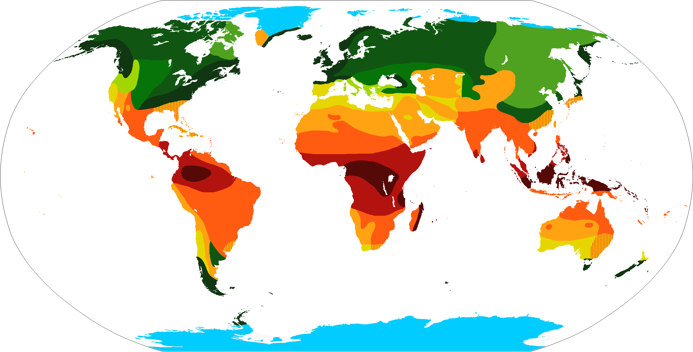 Map of precipitation regimes in the world